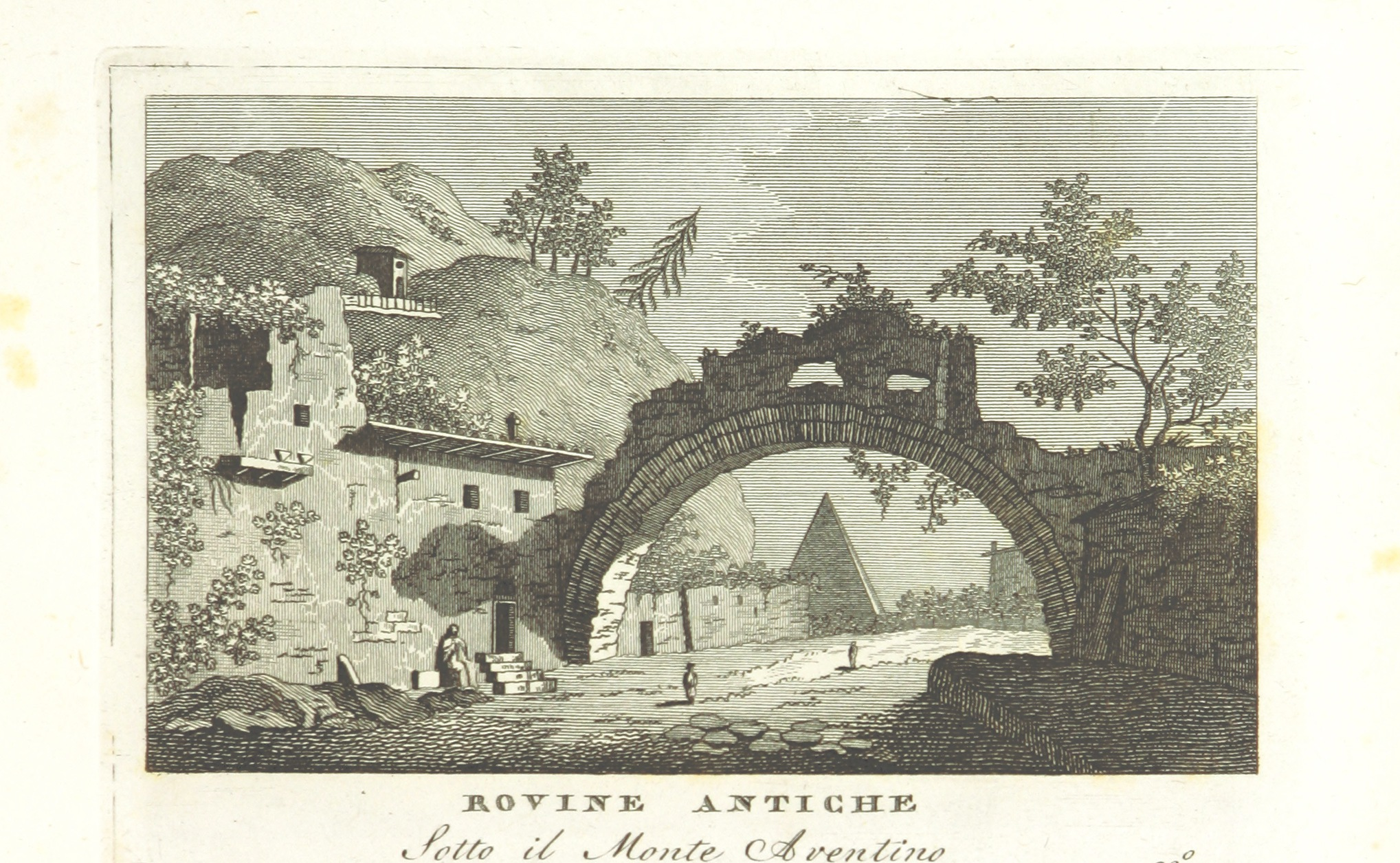 Title: "Vedute antiche e moderne le più interessanti della città di Roma, incise da vari autori, in numero 100. (Explication ... rédigée ... par E. Piale.)", "Appendix. Topography" Contributor: PIALE, Stefano. Author: Rome (Italy) Shelfmark: "British Library HMNTS 10131.h.1." Page: 57 Place of Publishing: Rome Date of Publishing: 1820 Publisher: V. Monaldini Issuance: monographic Identifier: 003147404